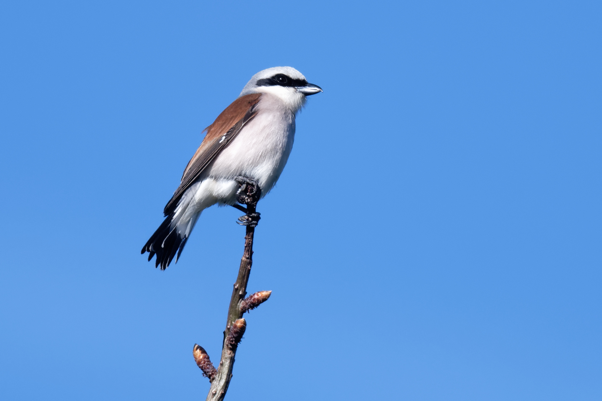 Red-backed shrike (Lanius collurio) in Arfeuilles, Allier, France